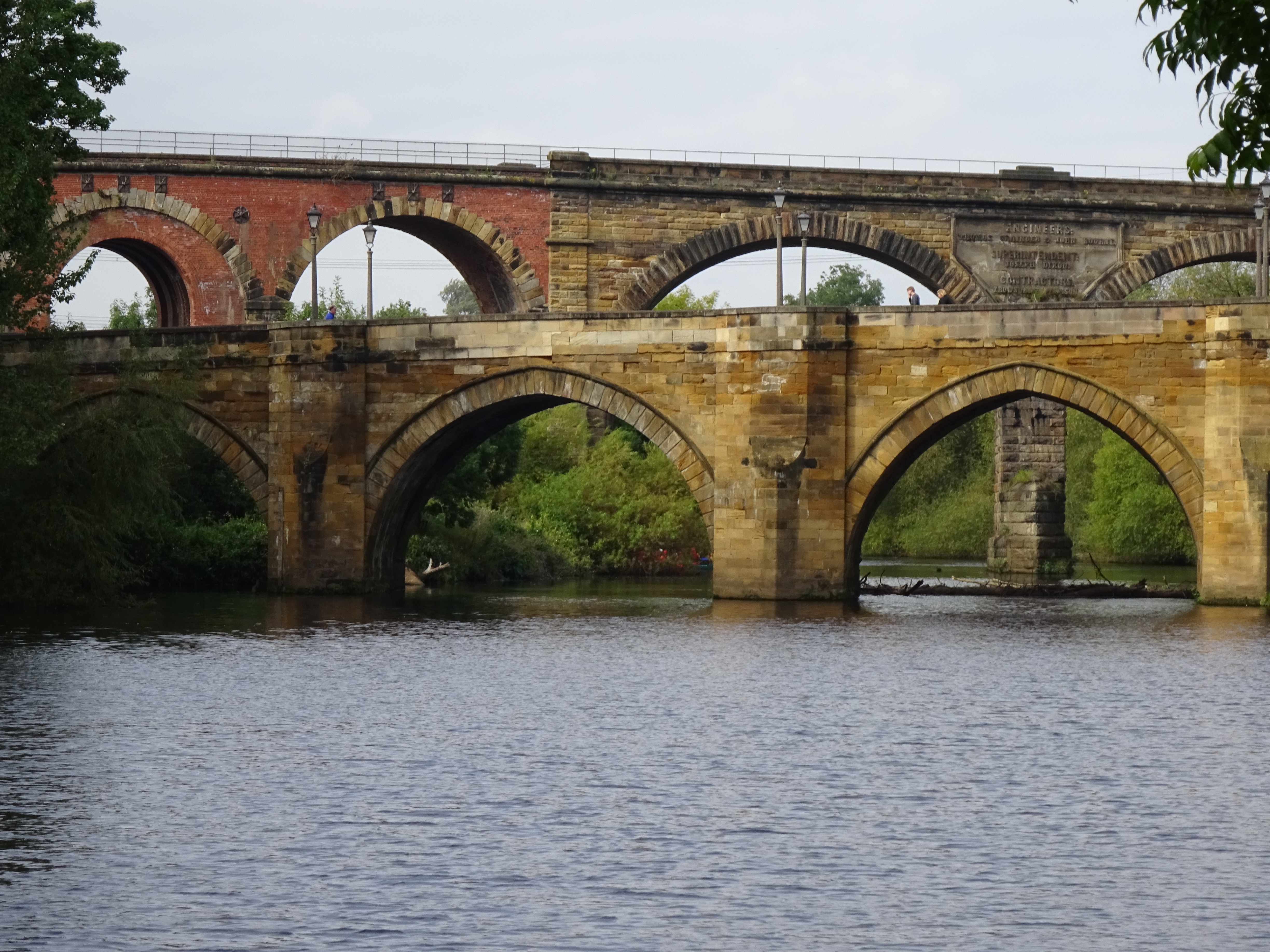 Yarm Bridge Wikidata has entry Q17640783 with data related to this item.